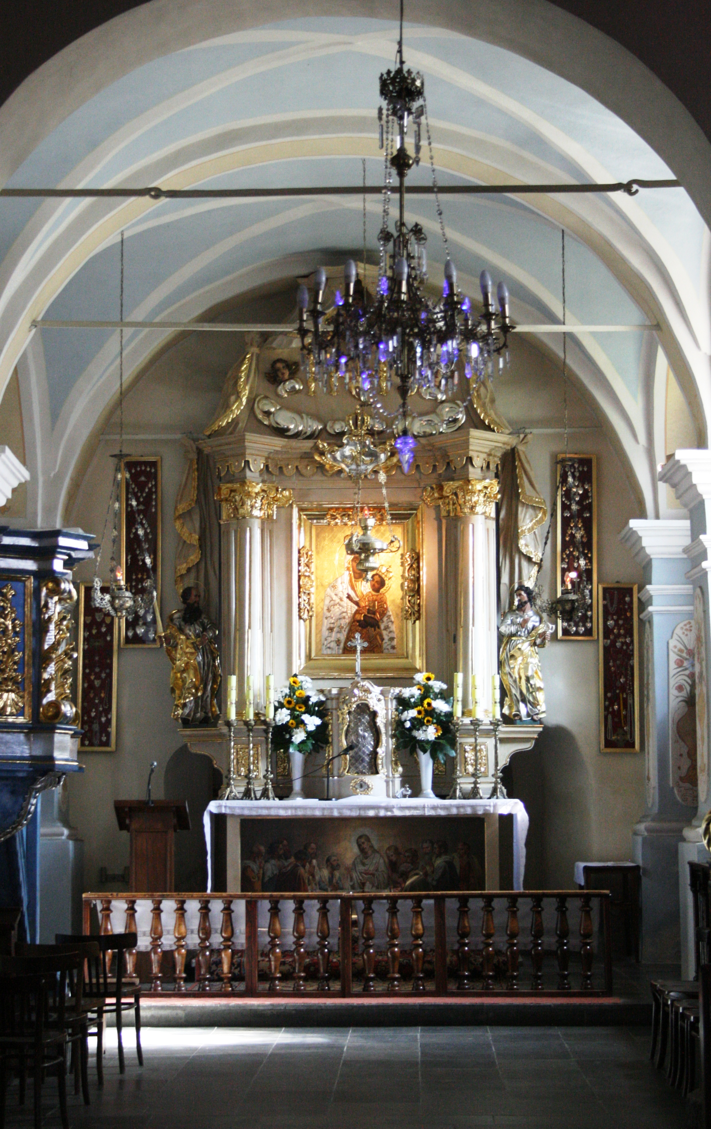 All Saints Church in Krościenko nad Dunajcem (Poland) – interior and altar